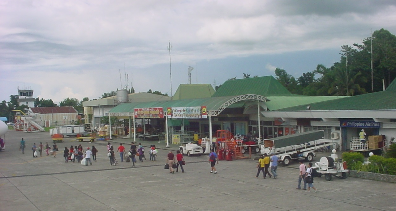 Lumbia Airport in Cagayan de Oro, Mindanao, Philippines